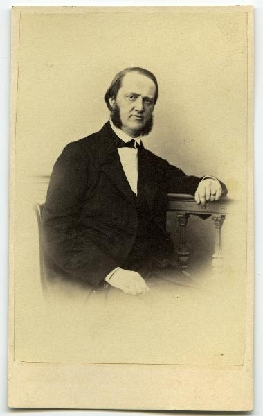 August von Bulmerincq (1822-1890), legar scholar and professor of international law at the universities of Dorpat (Estonia) and Heidelberg (Germany)